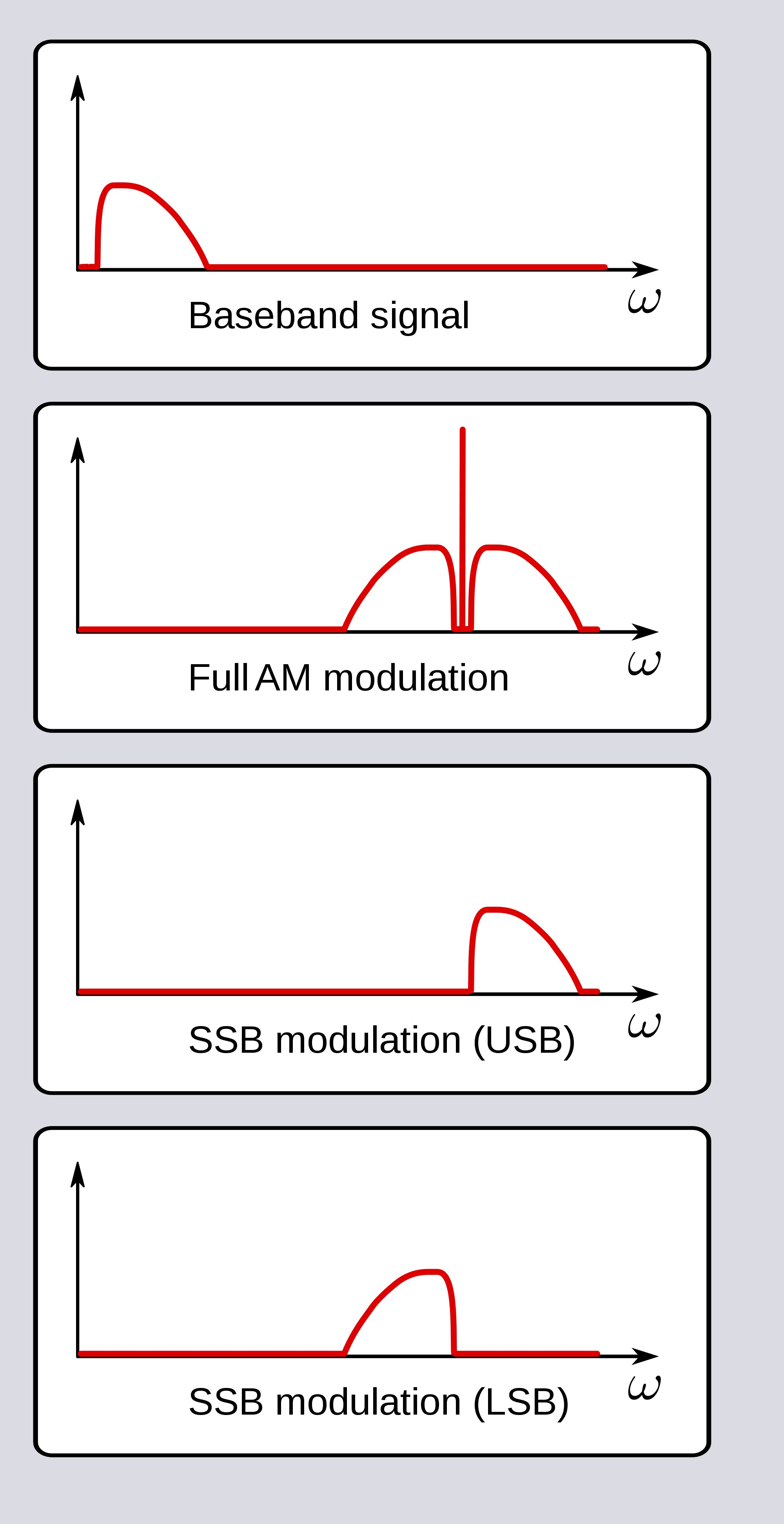 Bandforms of single-sideband modulation compared to amplitude modulation.